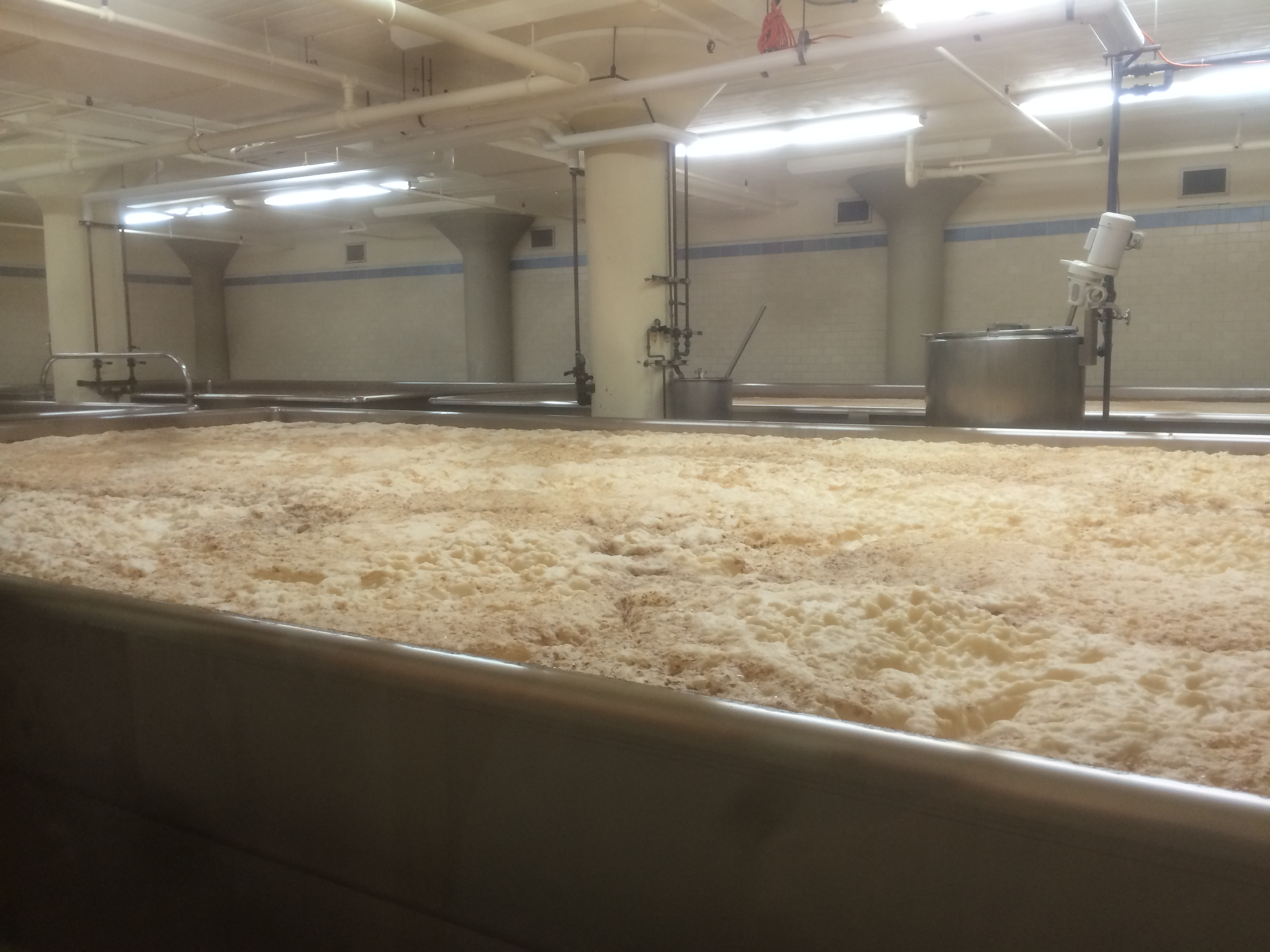 Open-top beer fermentation tank at Anchor Brewing Company location in Potrero Hill district of San Francisco.